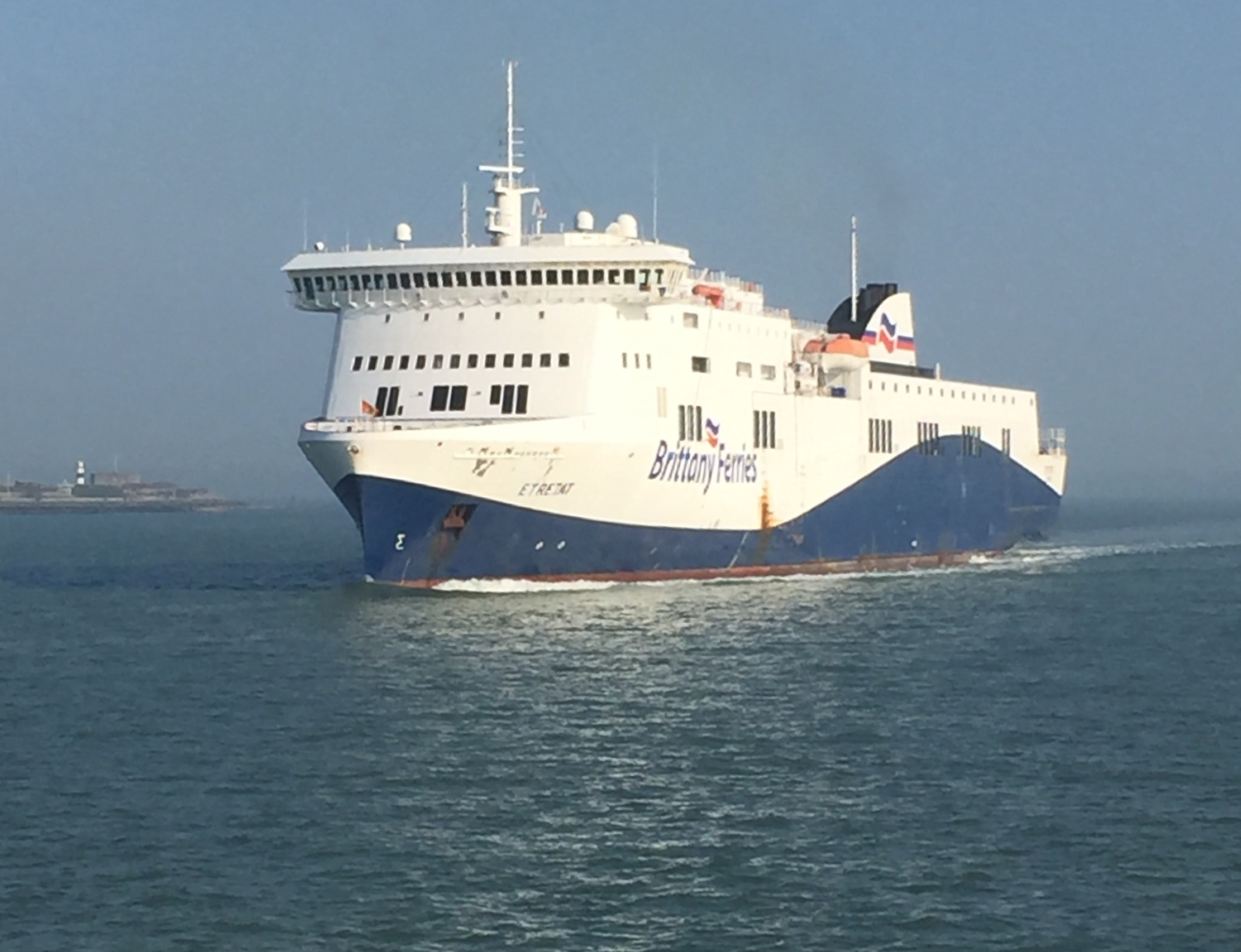 The Brittany Ferries ship Etretat seen coming into port at Portsmouth. Taken from a Wightlink catamaran.